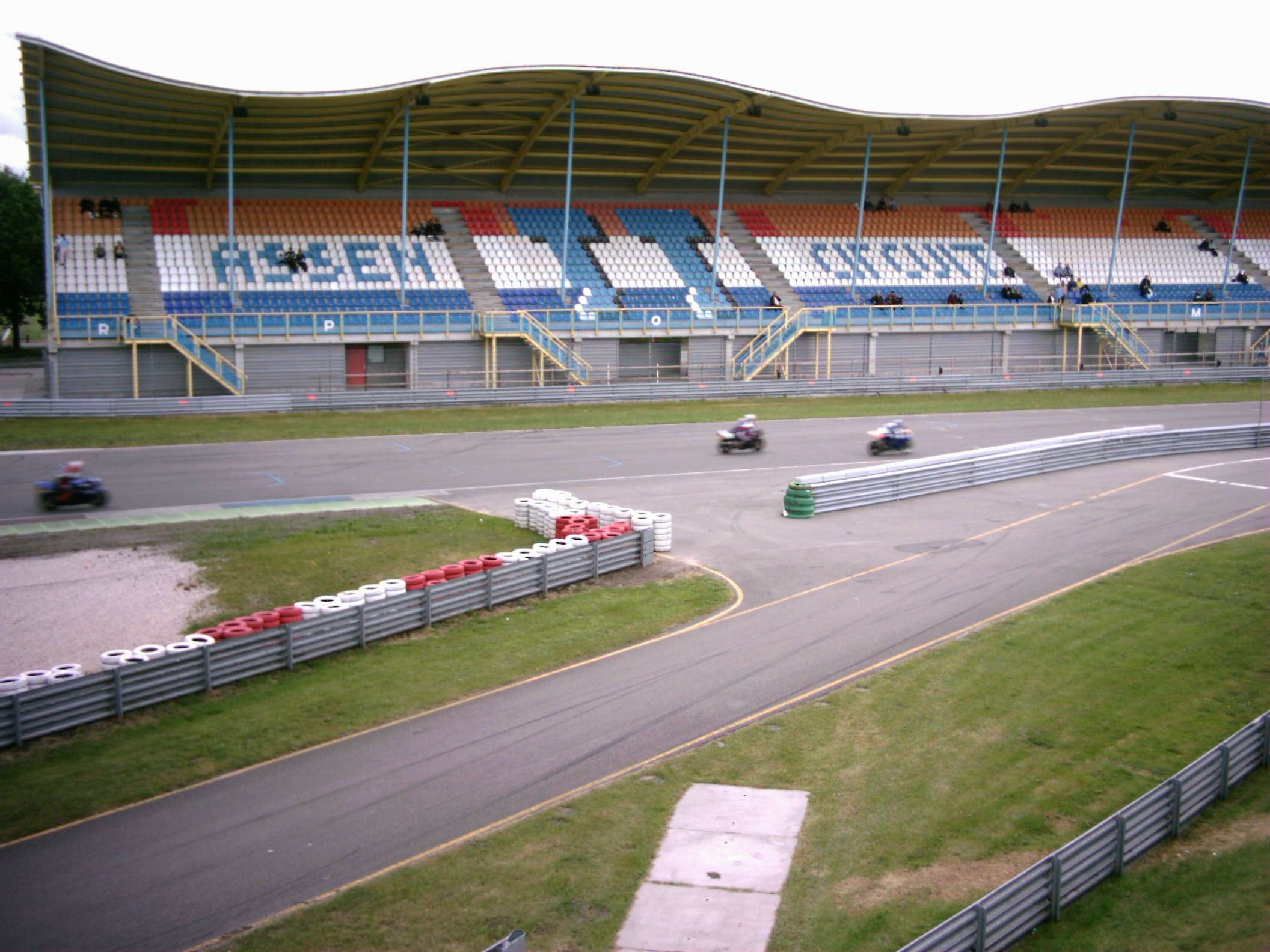 Training session in front of the grandstand.